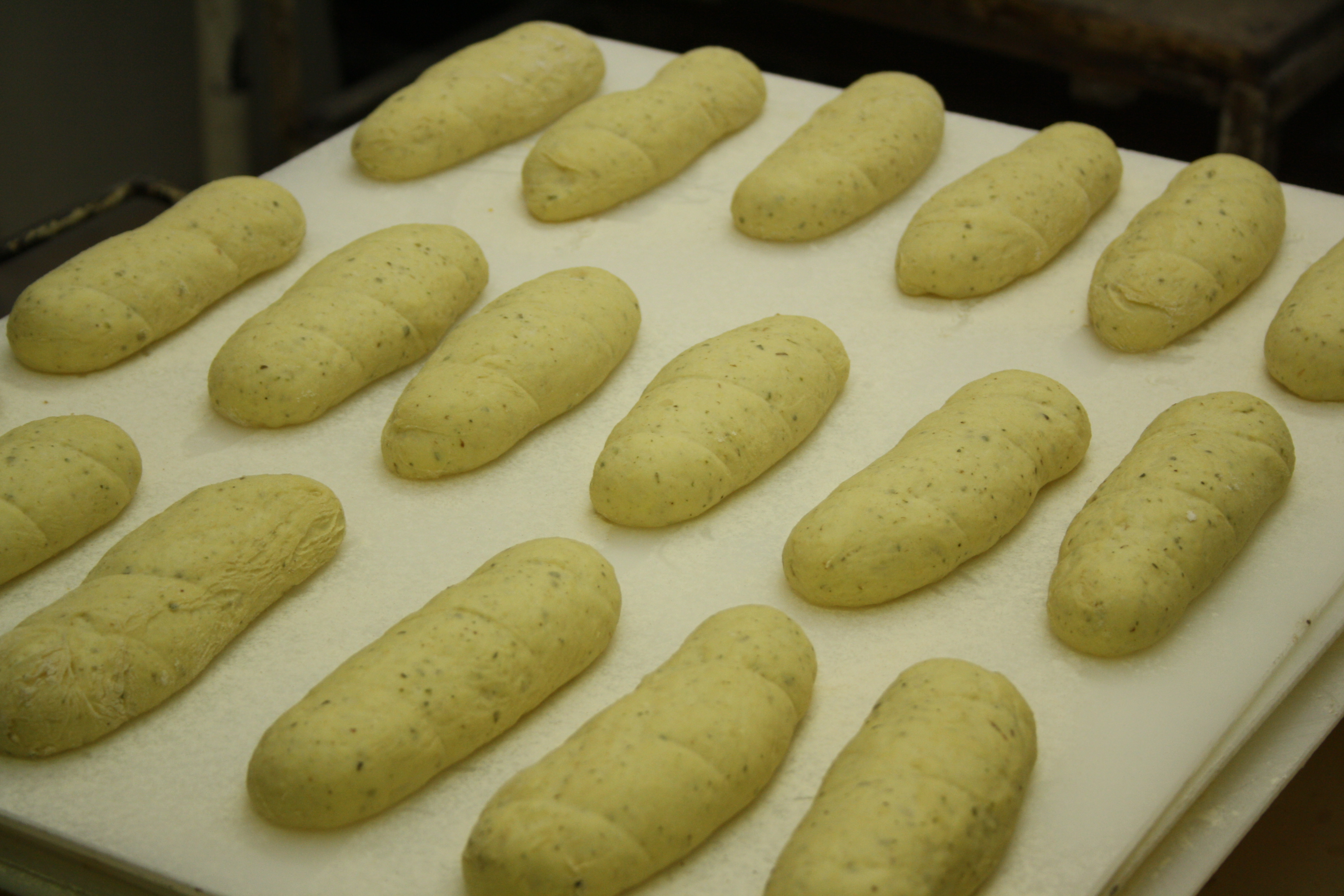 Production process of czech "bramboráček", bread made of potato dough. This photograph was taken with a DSLR from WMCZ's Camera grant. This picture was taken and/or got within the scope of the 'Acquiring scientific and specialized pictures' grant.